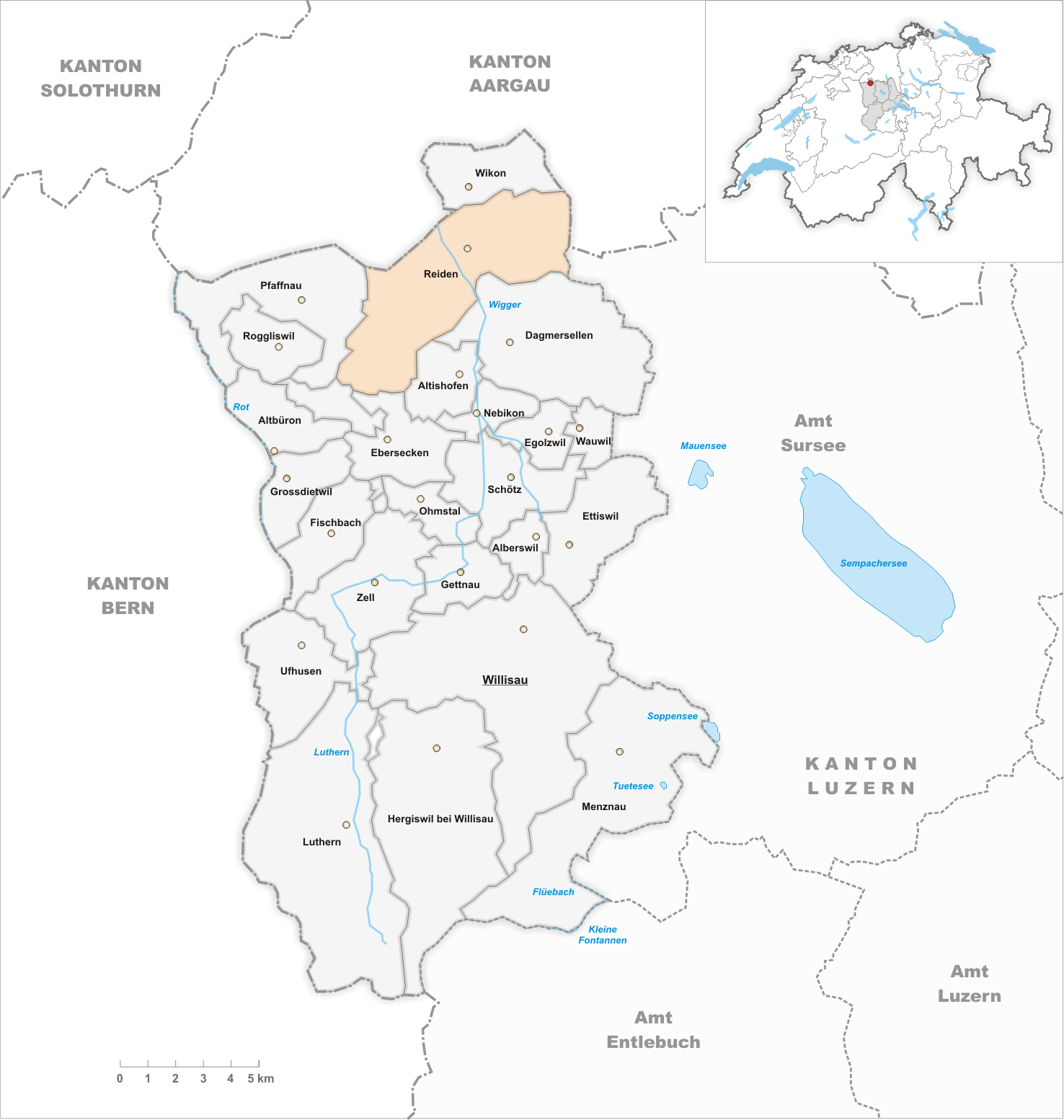 Municipality Reiden